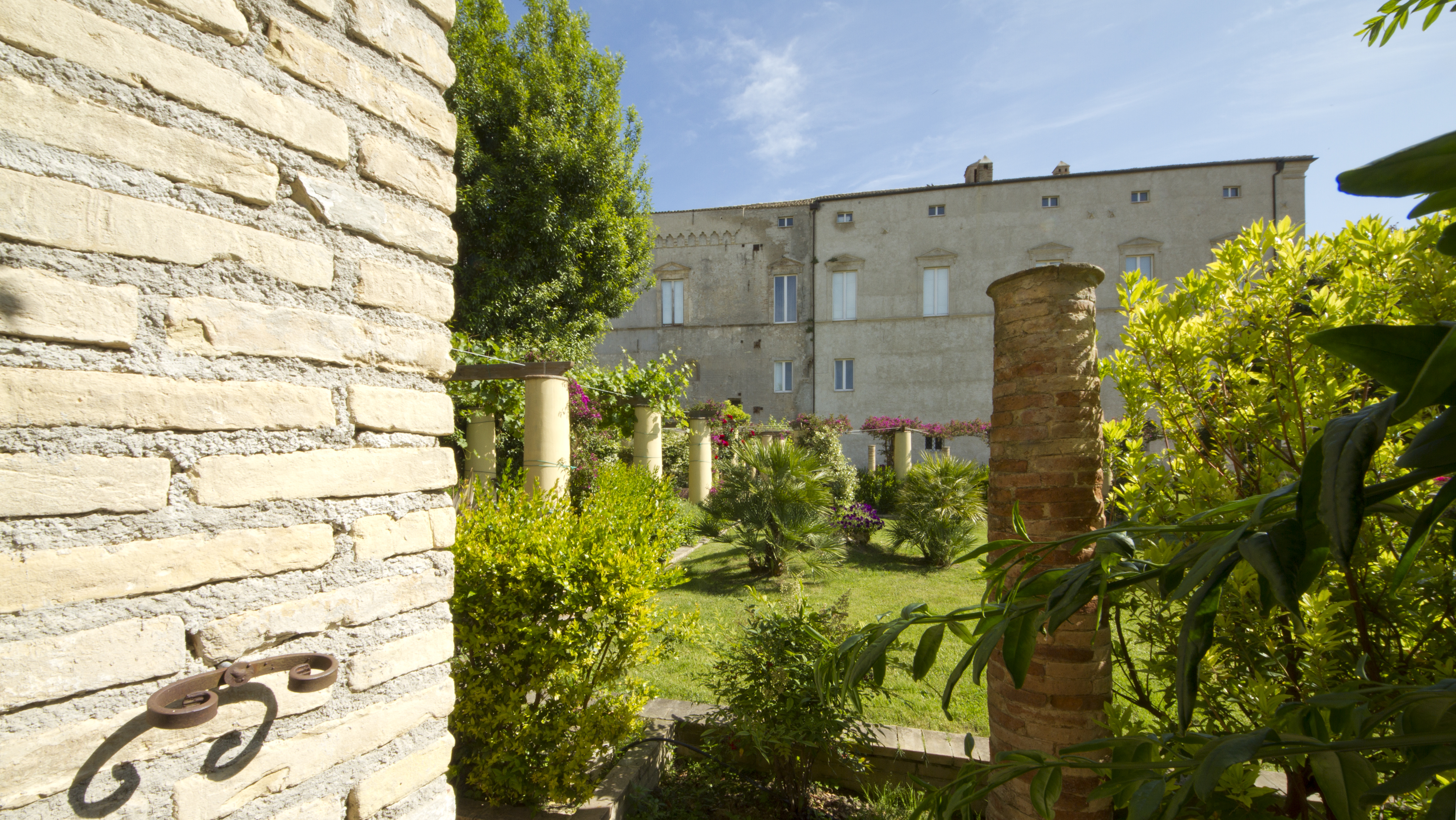 66054 Vasto, Province of Chieti, Italy